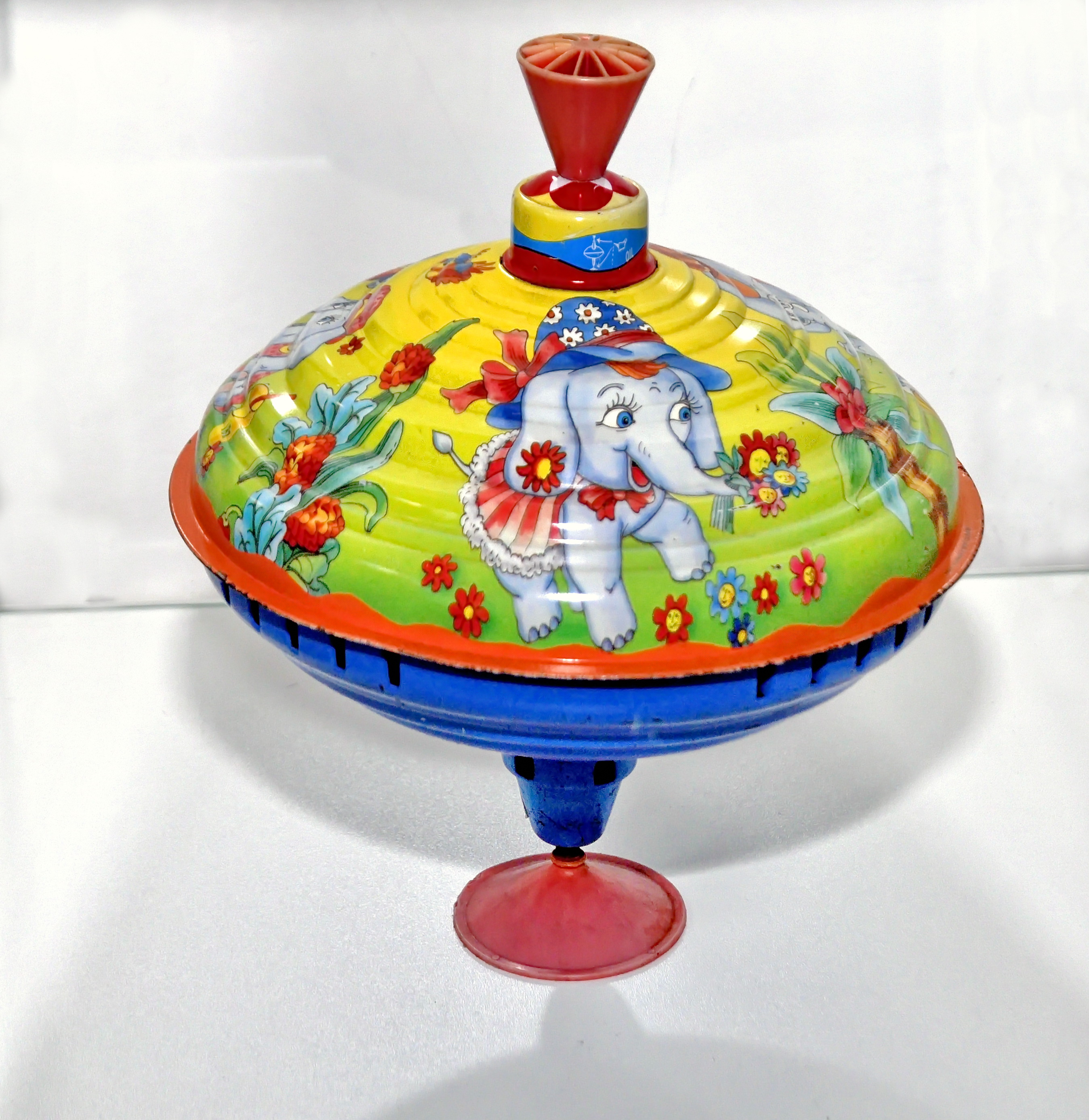 Metal spinning top for kids. Now located in Museum of Science and Technology Belgrade.